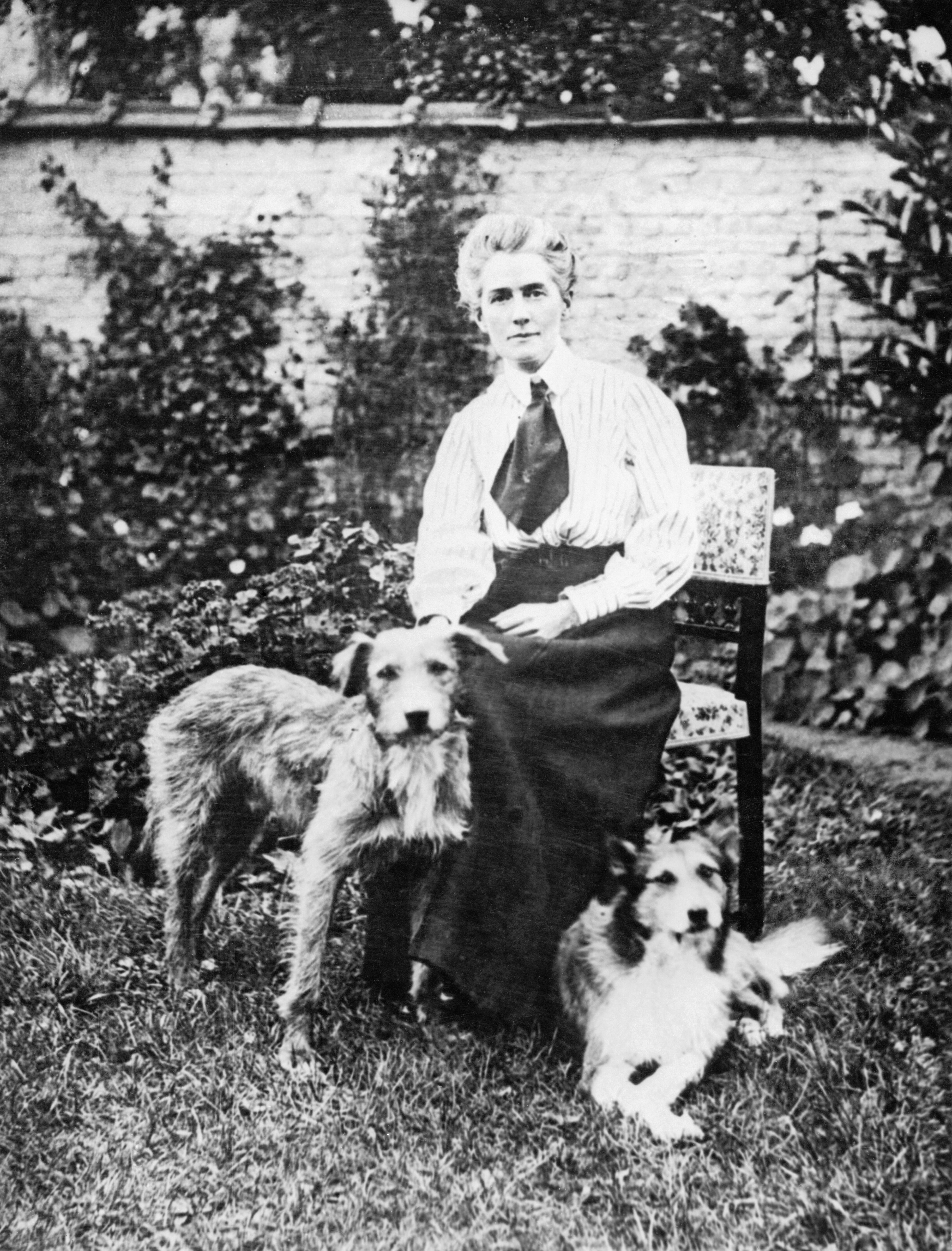 Nurse Edith Cavell 1865-1915 Pre-War Life in Brussels - A portrait of nurse Edith Cavell as she sits in a garden her two dogs. The dog on the right, "Jack" was rescued after her execution.